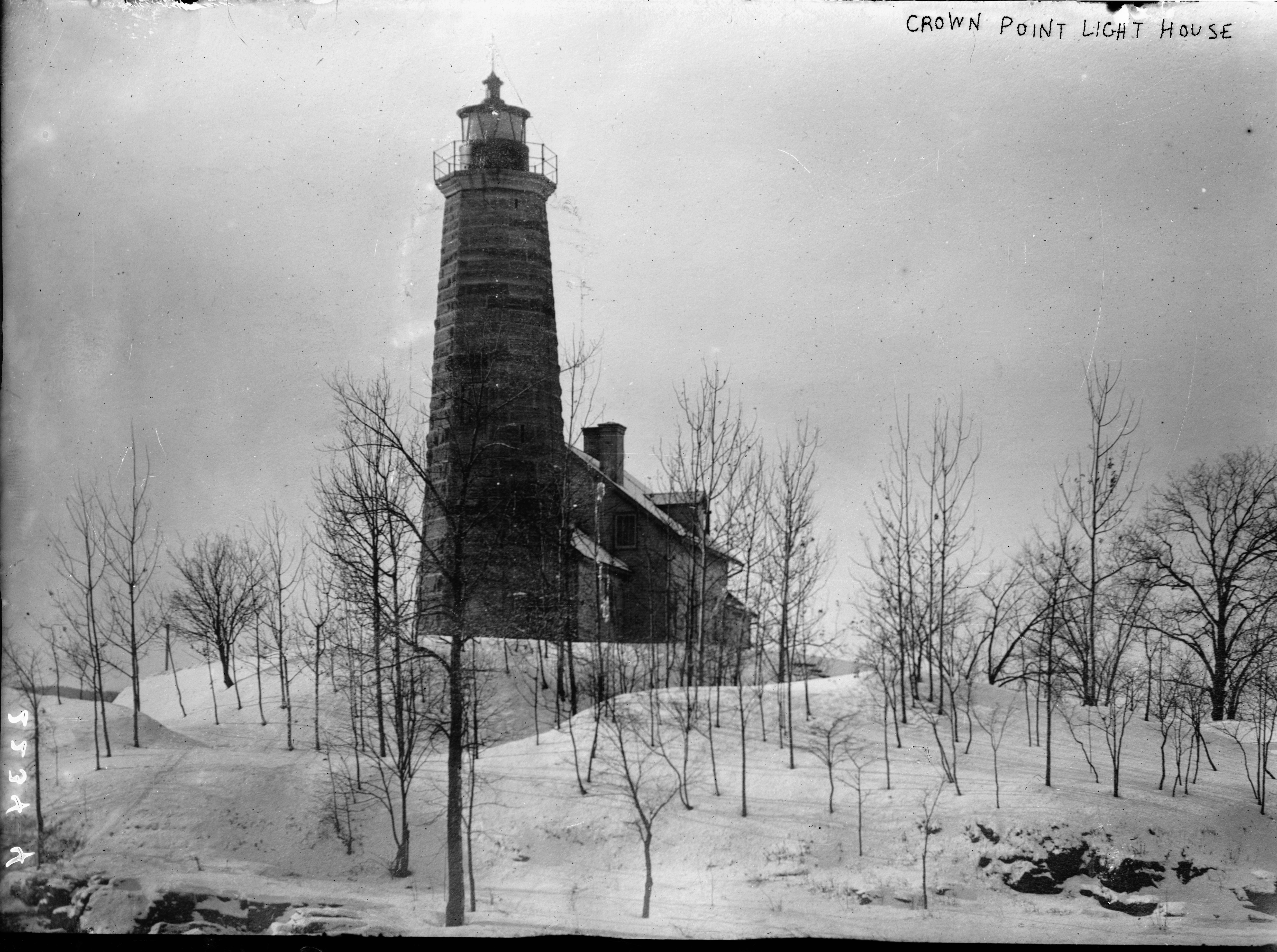 Crown Point Light House c. 1910- 1915